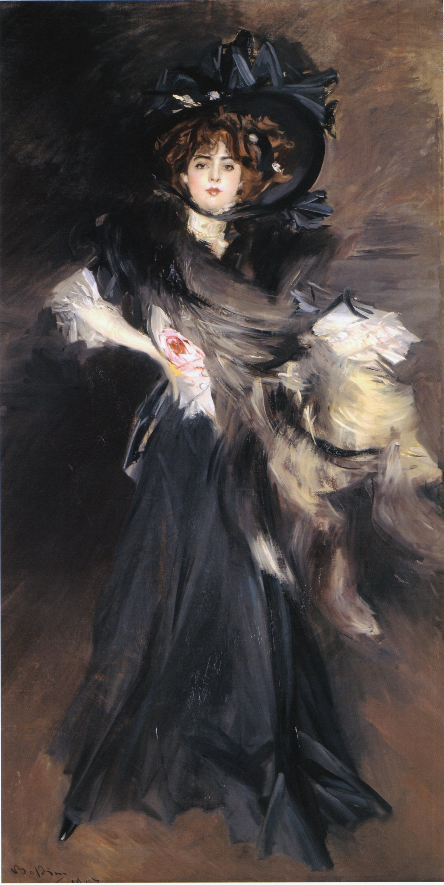 Portrait of Mademoiselle Geneviève Lantelme